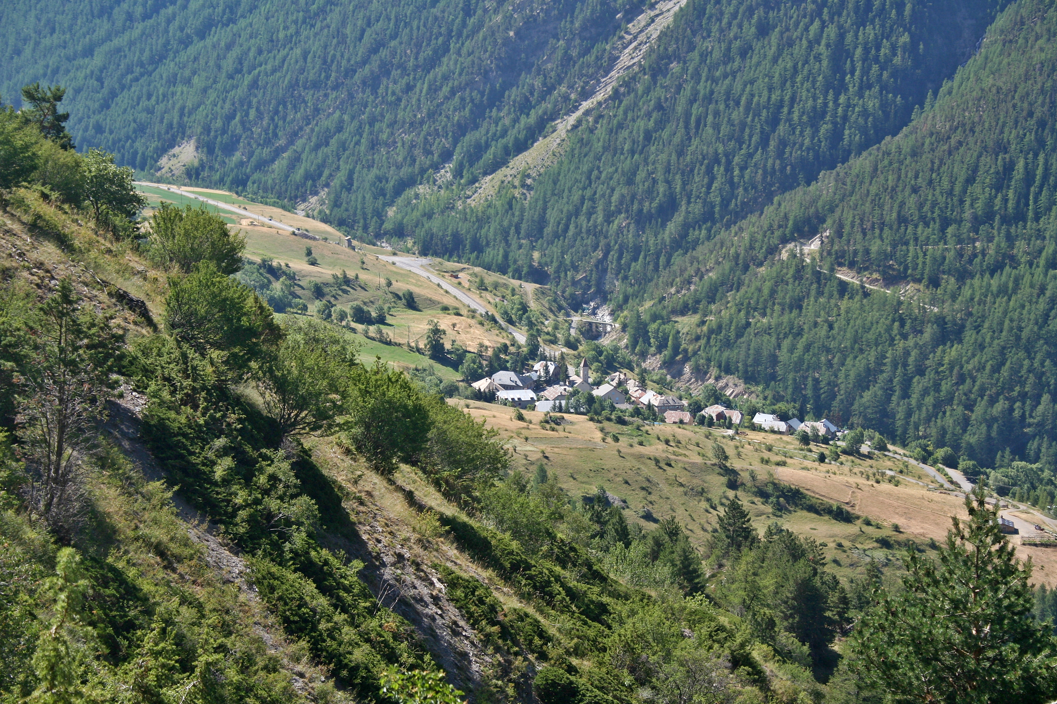 The village of Meyronnes, in the Ubayette valley. Alpes-de-Haute-Provence département, France.